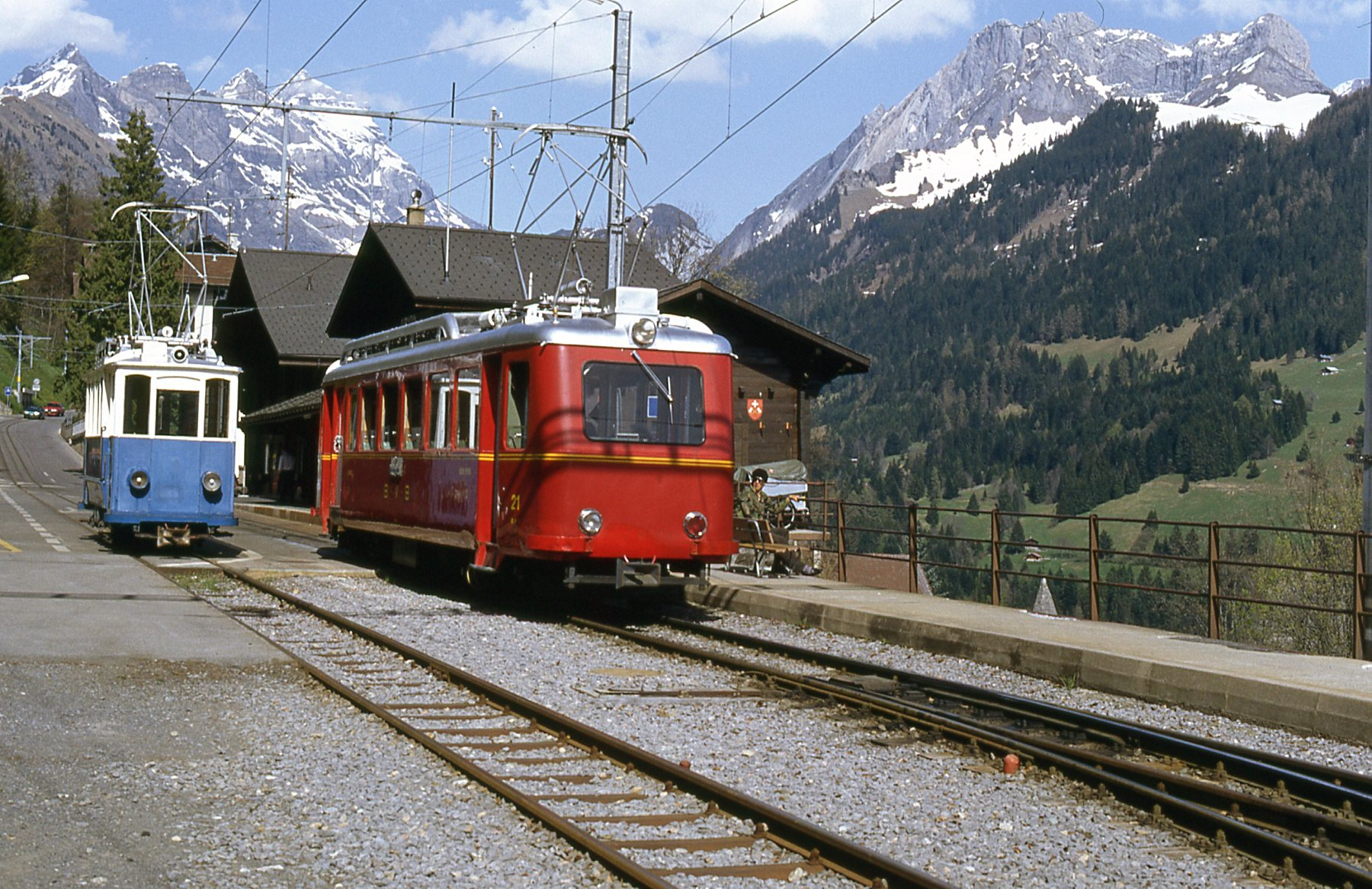 Train of the Bex Villard Bretaye rail-line